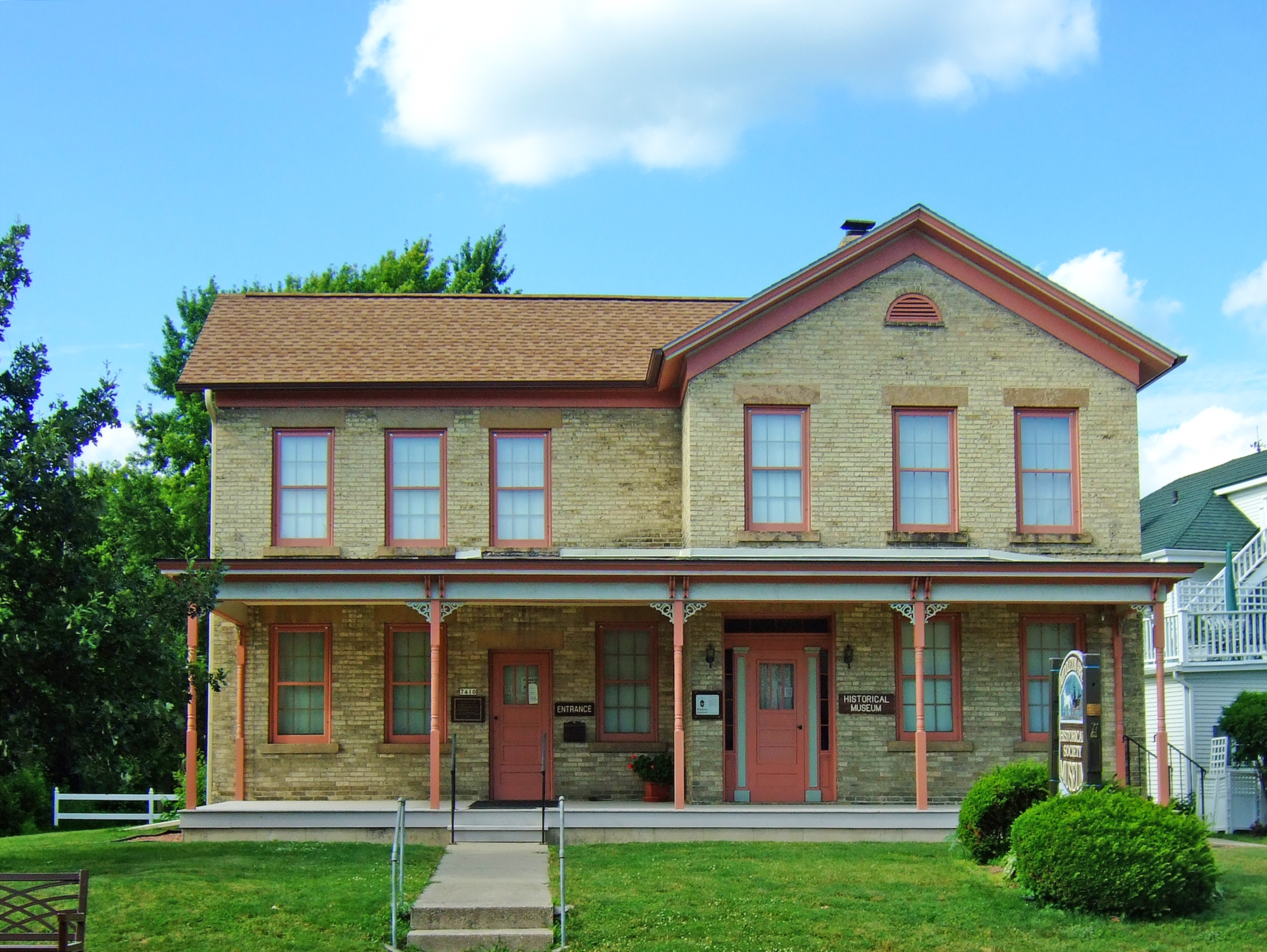 The Rowley House at 7410 Hubbard Avenue in Middleton, Wisconsin. It now houses the Middleton Historical Society Museum. It was built in 1867 by Dr. Newman (Numan?) C. Rowley at a cost of $800. In 1871, his son, Dr. Antinous A. Rowley, moved in and continued the practice. Here, his son, Dr. Antinous G. Rowley, became the third Dr. Rowley. His half sister, Arlene Rowley Morhoff, is the present owner and resident. It is a century home, having been owned and lived in by one family for over 100 years. It was built with yellow brick that likely came from the Pheasant Branch brickyard. It was added to the National Register of Historic Places in 1999.